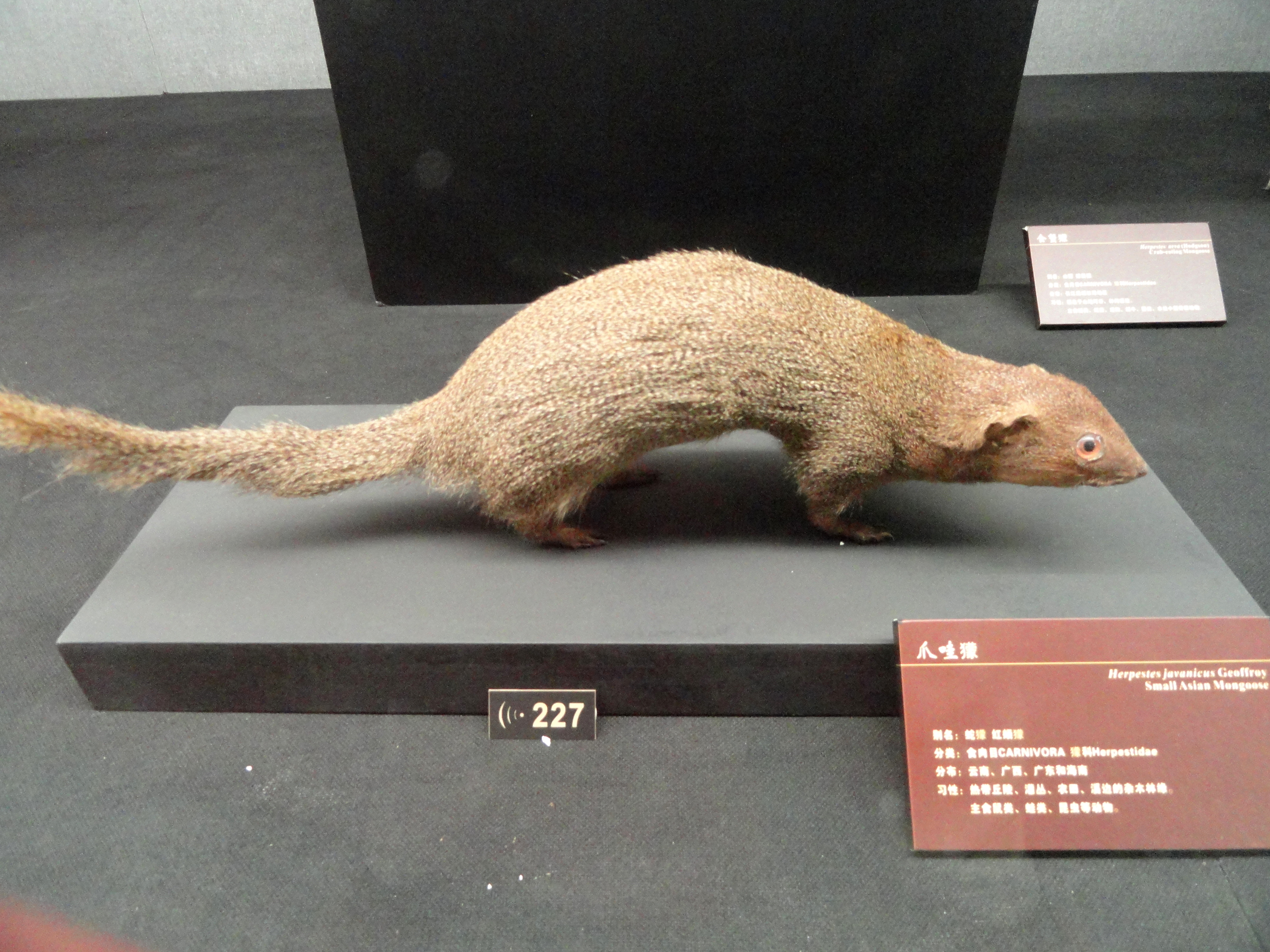 Taxidermy exhibit in the Kunming Natural History Museum of Zoology (昆明动物博物馆), Kunming, Yunnan, China.